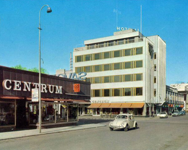 Centrum department store, run by the "progressive" (=leftist) cooperative OTK aka E-liike, in Mikkeli, Finland, early 1960s.